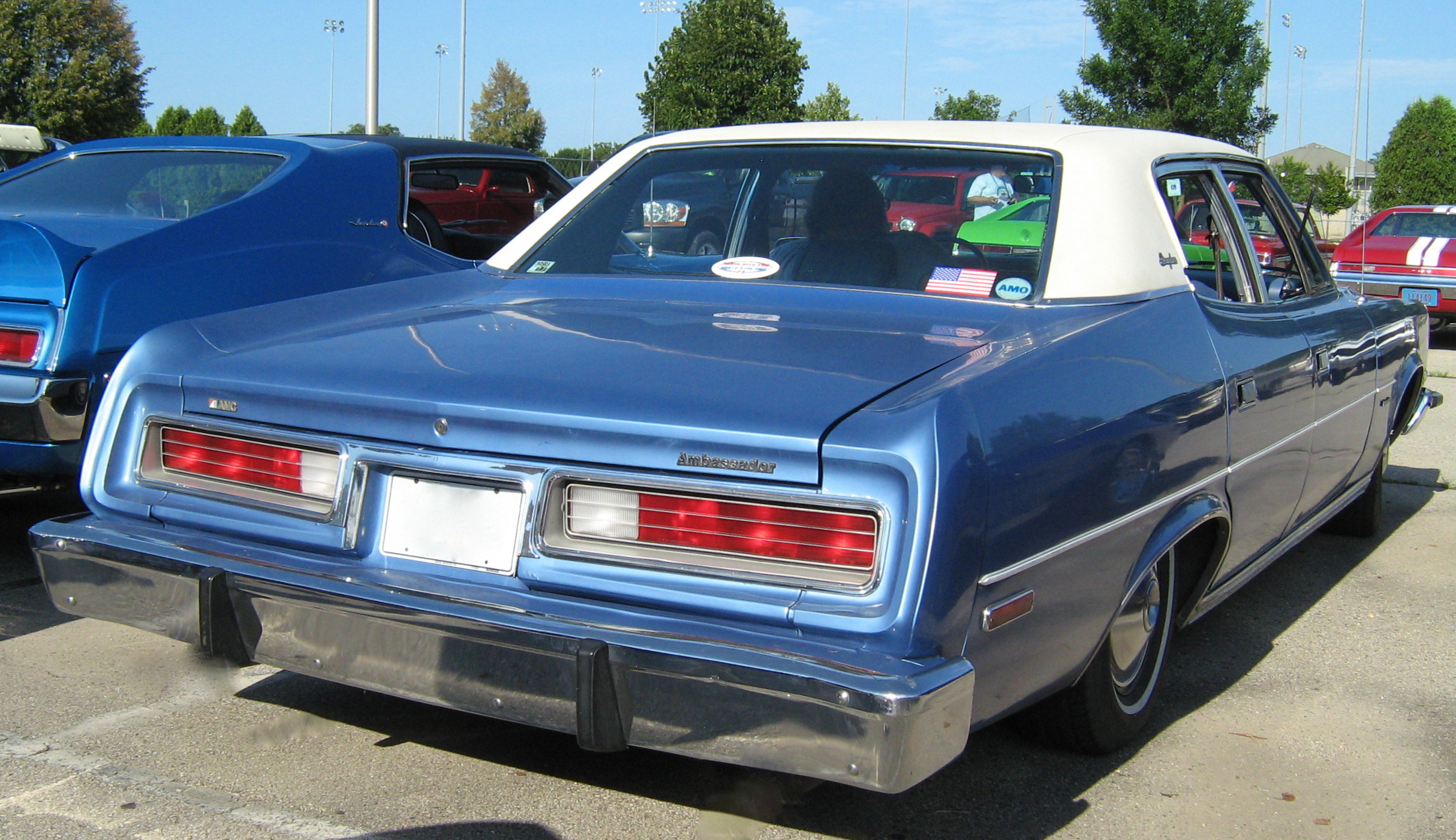 1974 AMC Ambassador Brougham four-door sedan finished in blue with a white vinyl covered roof and standard white bodyside and hood pin stripes. Built by American Motors in Kenosha, Wisconsin. All Ambassadors were equipped with V8 engines, automatic transmissions, power steering and disk brakes, air conditioning, radio, and numerous other standard comfort features.